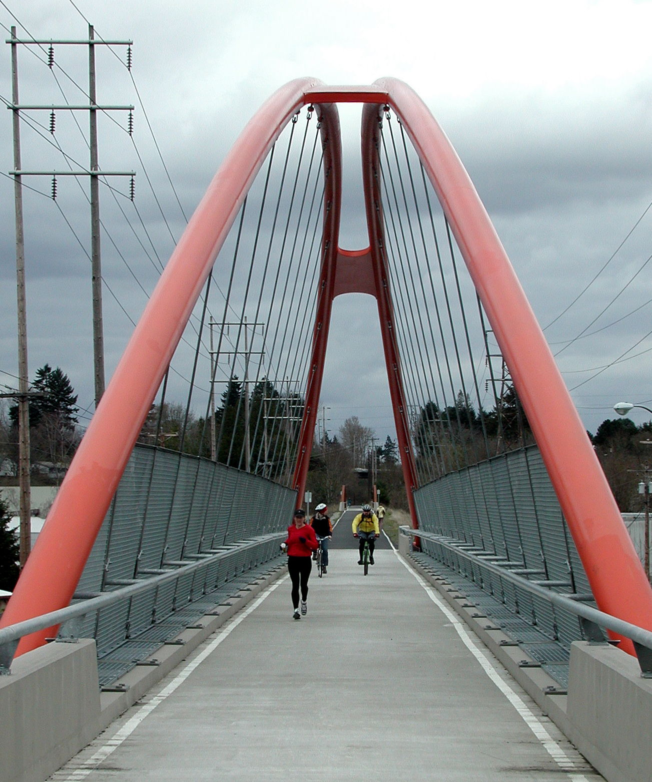 Pedestrian and bicycle bridge over Southeast McLoughlin Boulevard in Portland, Oregon. The bridge, in the Sellwood neighborhood, is part of the Springwater Corridor Trail along Johnson Creek.